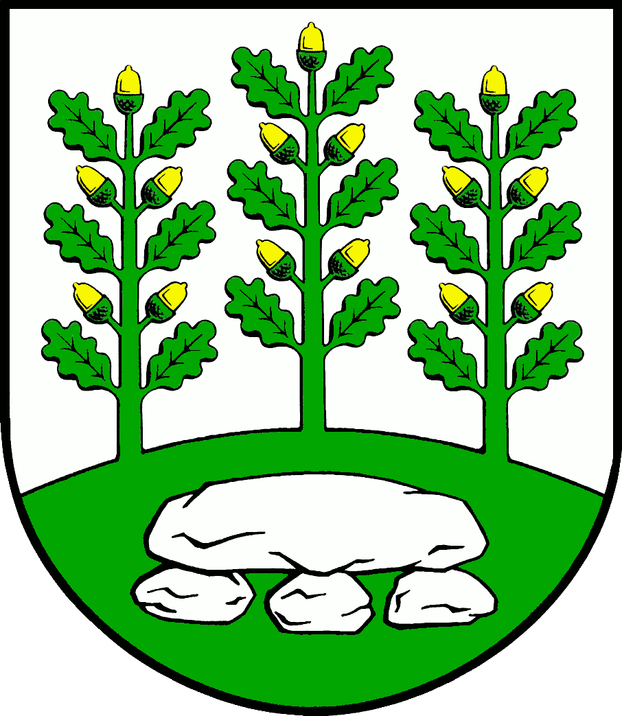 Coat of arms of the municipality Oeschebüttel in Schleswig-Holstein, Germany.